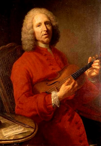 Depicted person: Jean-Philippe Rameau (1683–1764), French composer and music theorist of the Baroque era